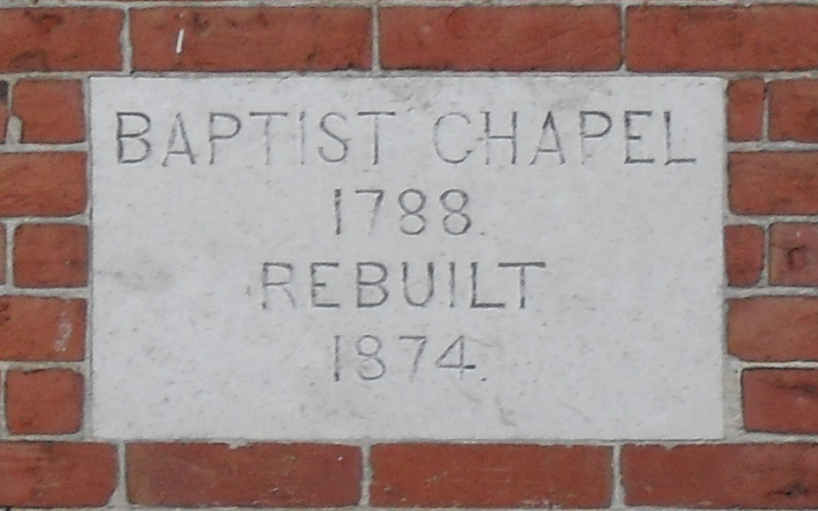 Datestone on the side elevation of the former Uckfield Baptist Church, London Road, Uckfield, Wealden, East Sussex, England. A chapel founded in 1785 on another site, buit here in 1789 and rebuilt in 1874. It closed in 2005 and was sold for residential conversion, but the congregation continues to meet at a school in the town.